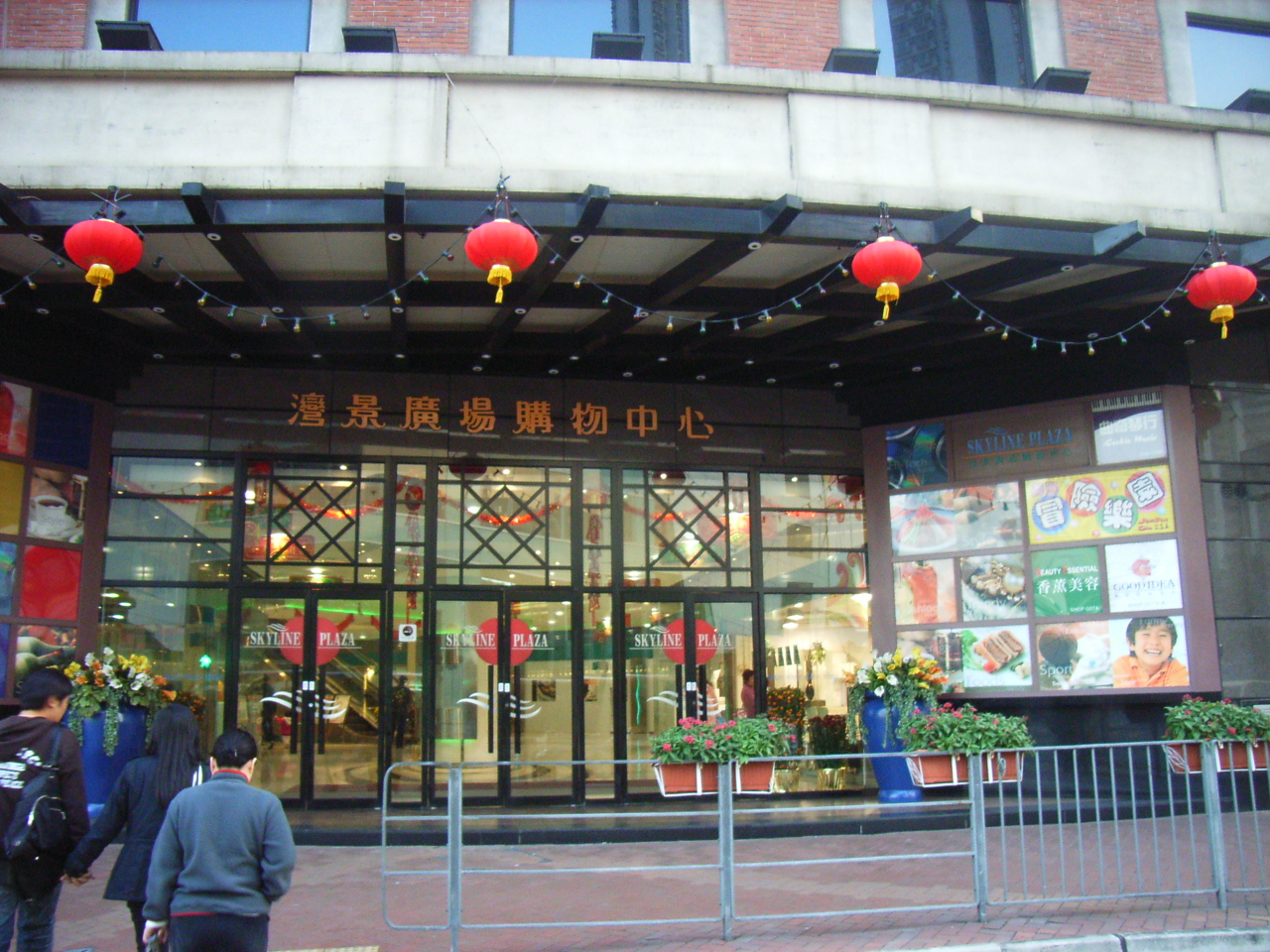 荃灣 楊屋道西端